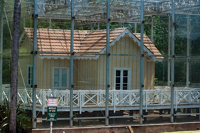 Sarmiento's house on the Parana delta, now a museum to his life and works